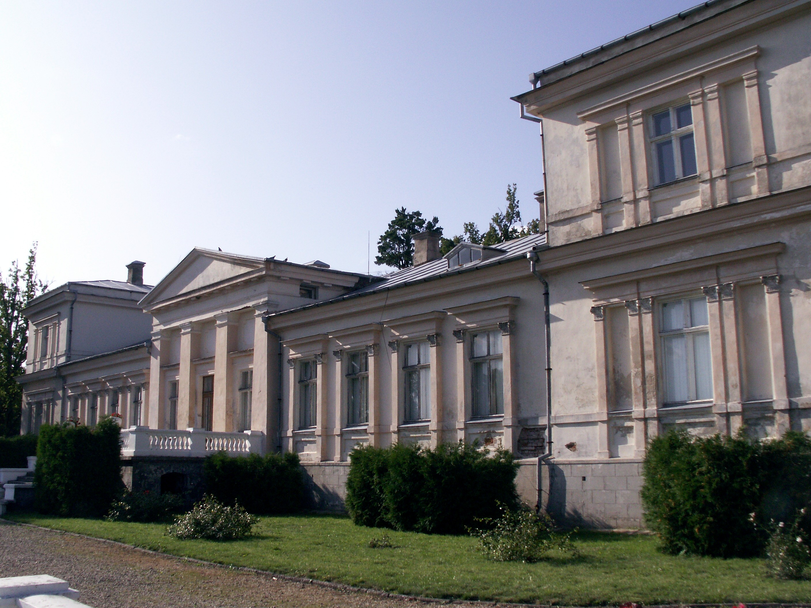 Renavas in Mažeikiai district, Lithuania